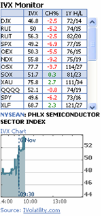 IVX Monitor: clicking on the symbol you will see a chart with the intraday IVX value VS its previous day's close.